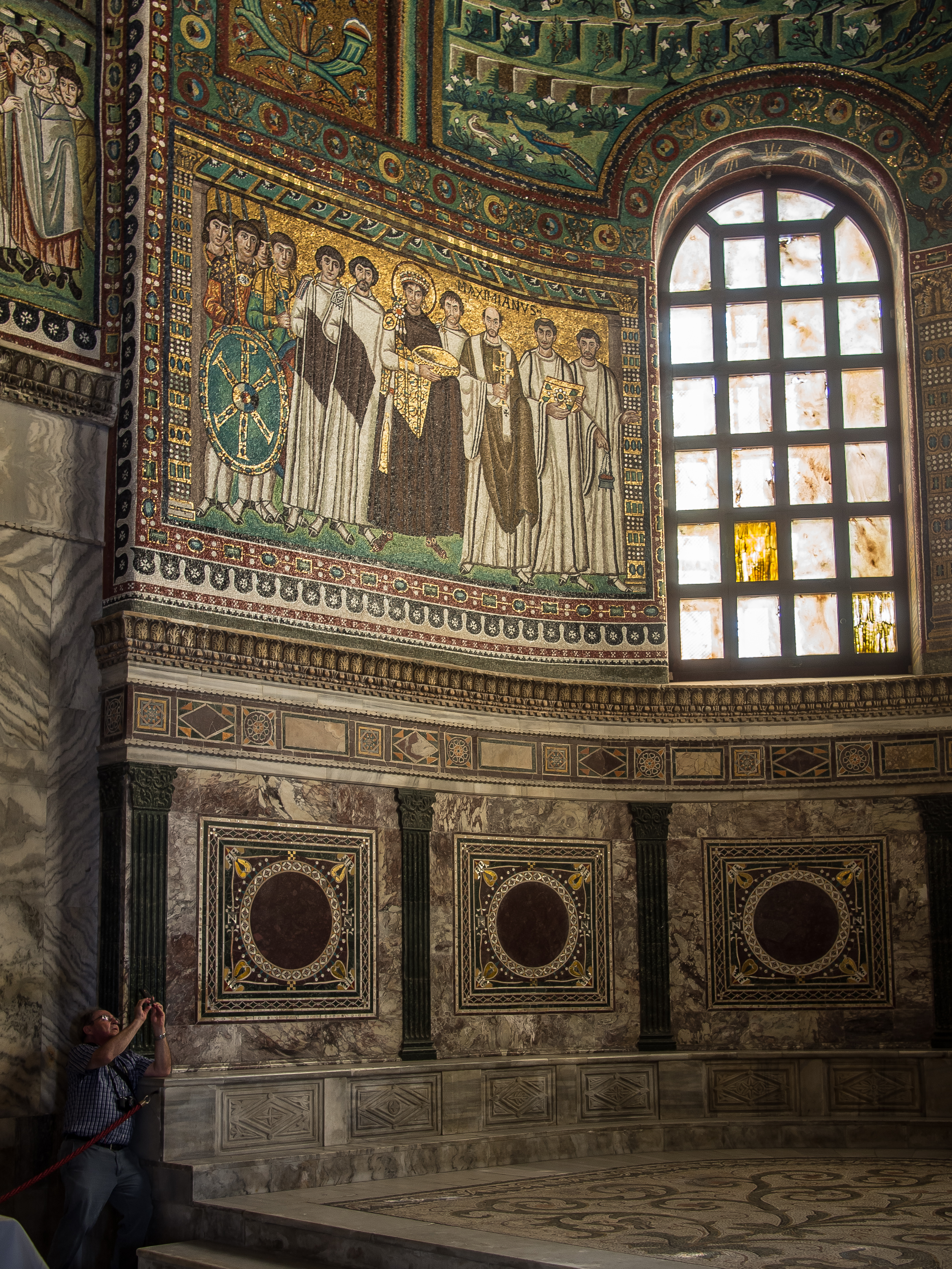 Ravenna - Basilica of San Vitale - mosaic